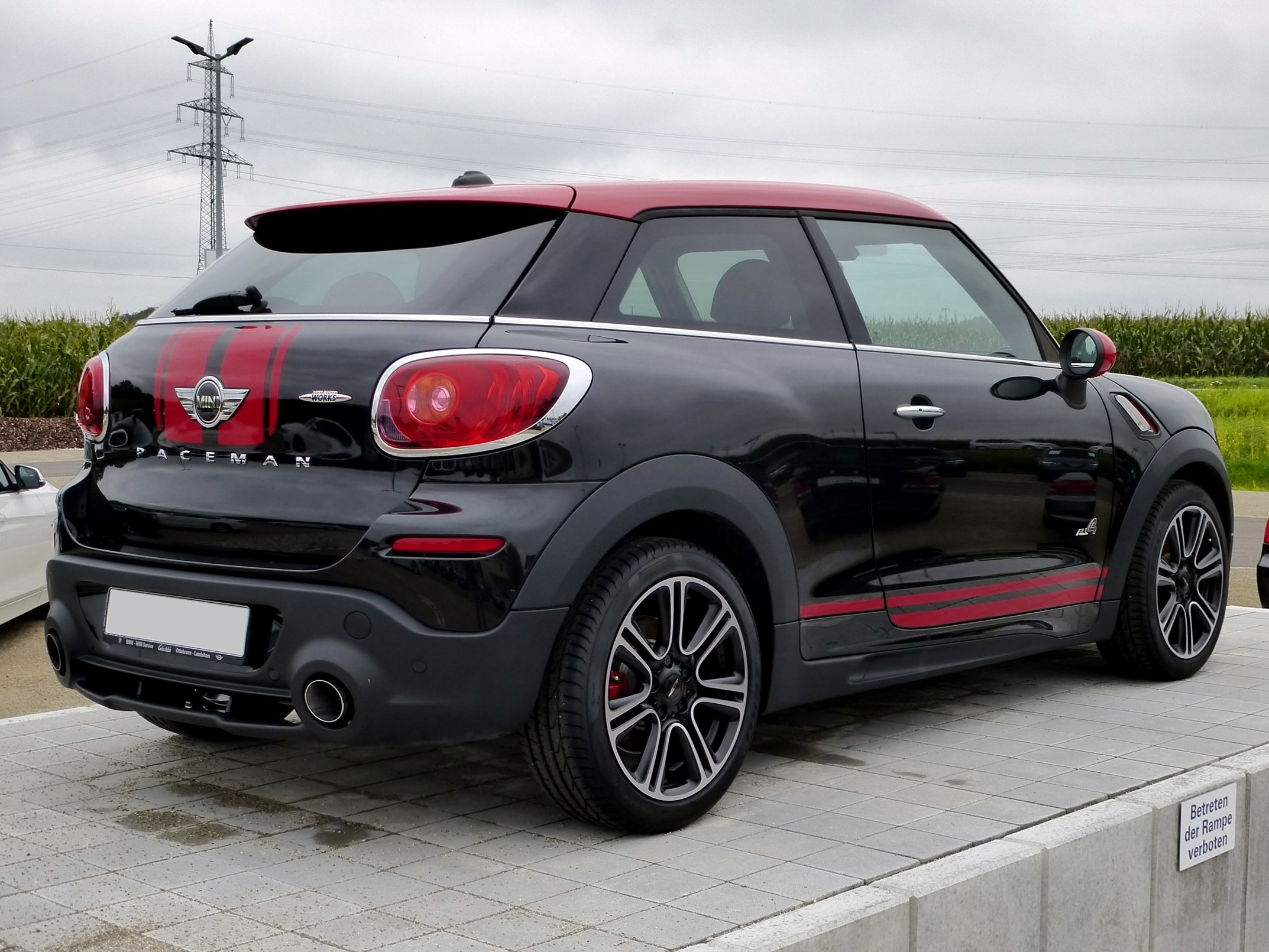 Mini John Cooper Works Paceman All4